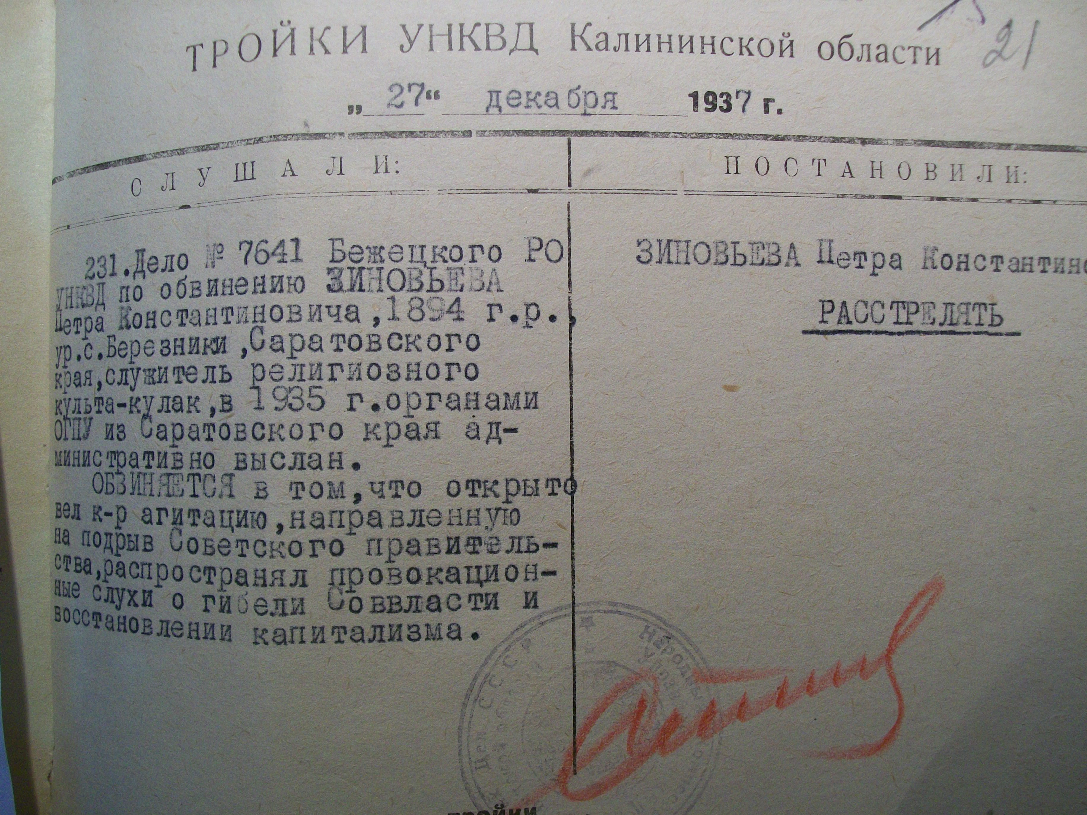 TROIKA NKVD Kalininsk region December 27, 1937 On charges of Zinoviev Petra Constantinovich, born in 1893. urs.s. berezniki, Saratov region, a servant of a religious cult-kulak, in 1935, the ogre from the Saratov region was administratively expelled. he is accused of openly campaigning to undermine the Soviet government, spreading provocative rumors about the death of the Soviet state and the capitalism's reinstatement. Decided: Zinovbeva Petra Konstantinovich Shoot